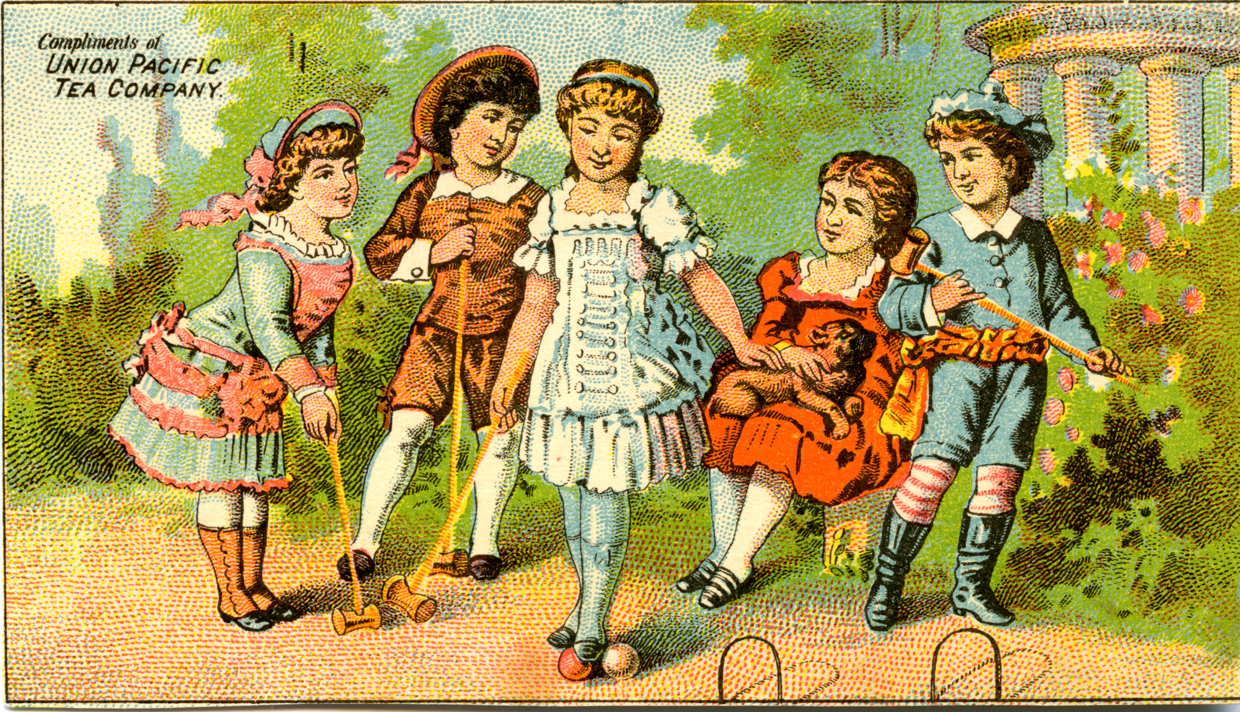 No known copyright restrictions. Please credit UBC Library as the image source. For more information, see Creator: Unknown Date Created: [between 1910 and 1919?] Source: Original Format: University of British Columbia. Library. Rare Books and Special Collections. Arkley Croquet Collection. Permanent URL